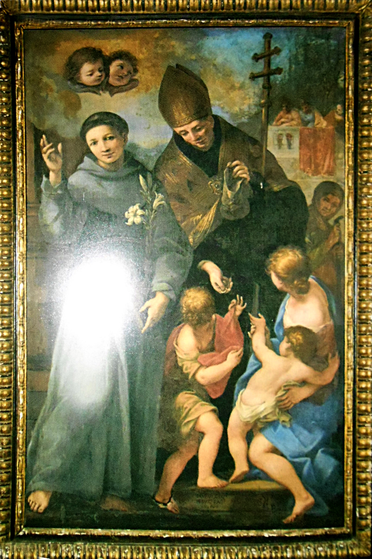 santi antonio e nicola